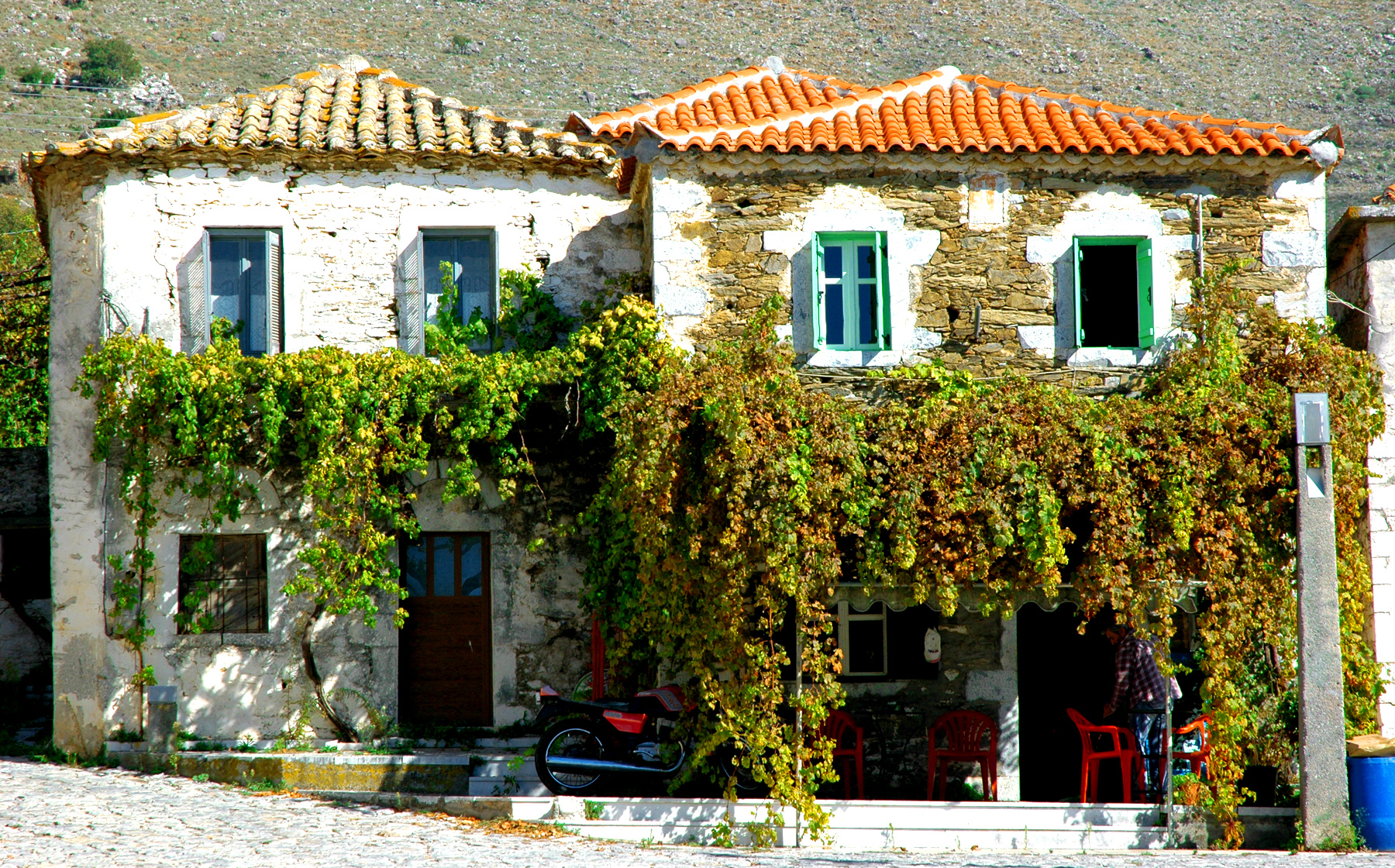 Stone houses in Thalames village, Mani, Greece